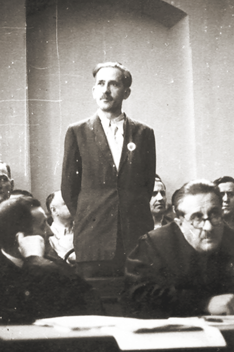 Stanisław Mierzwa (1905-1985) – Polish lawyer and politician of Polish People's Party (1945–1949), here during a show trial made by communist authorities in 1947.